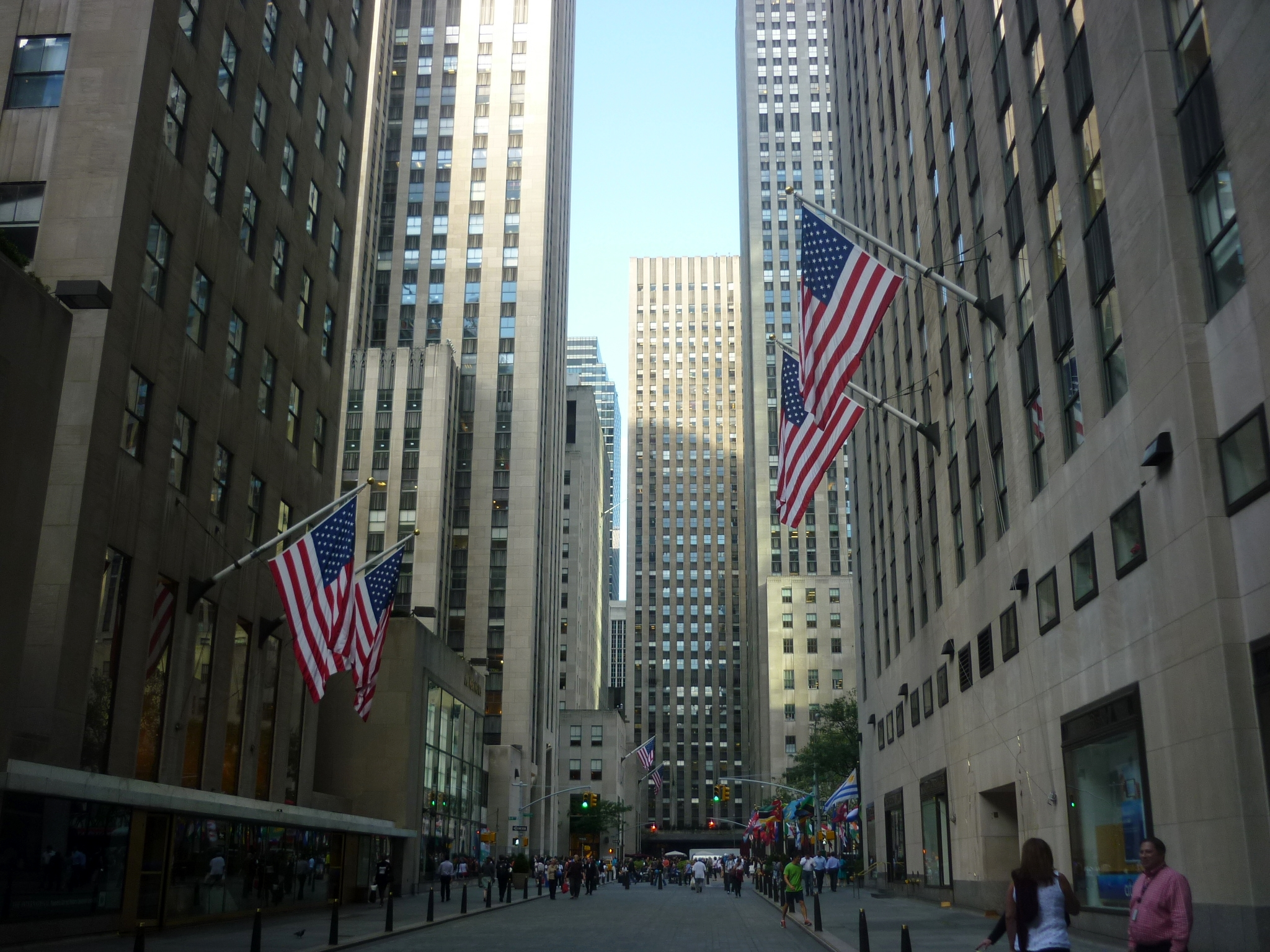 Rockefeller Center, NYC